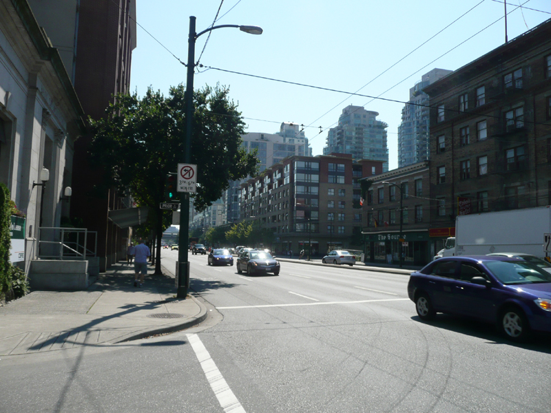 Main Street at Prior Street, Vancouver.